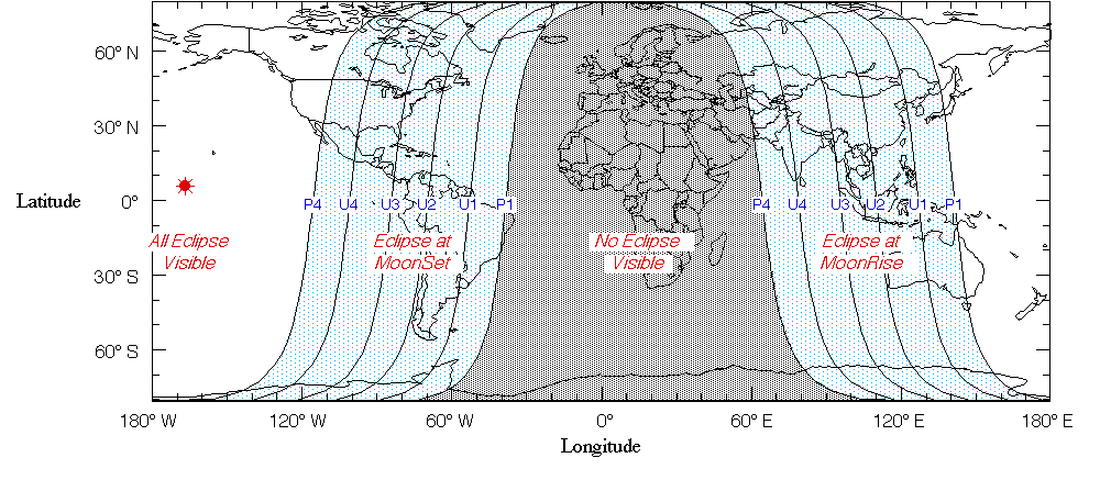 Visibility of the 2014-10-08 lunar eclipse